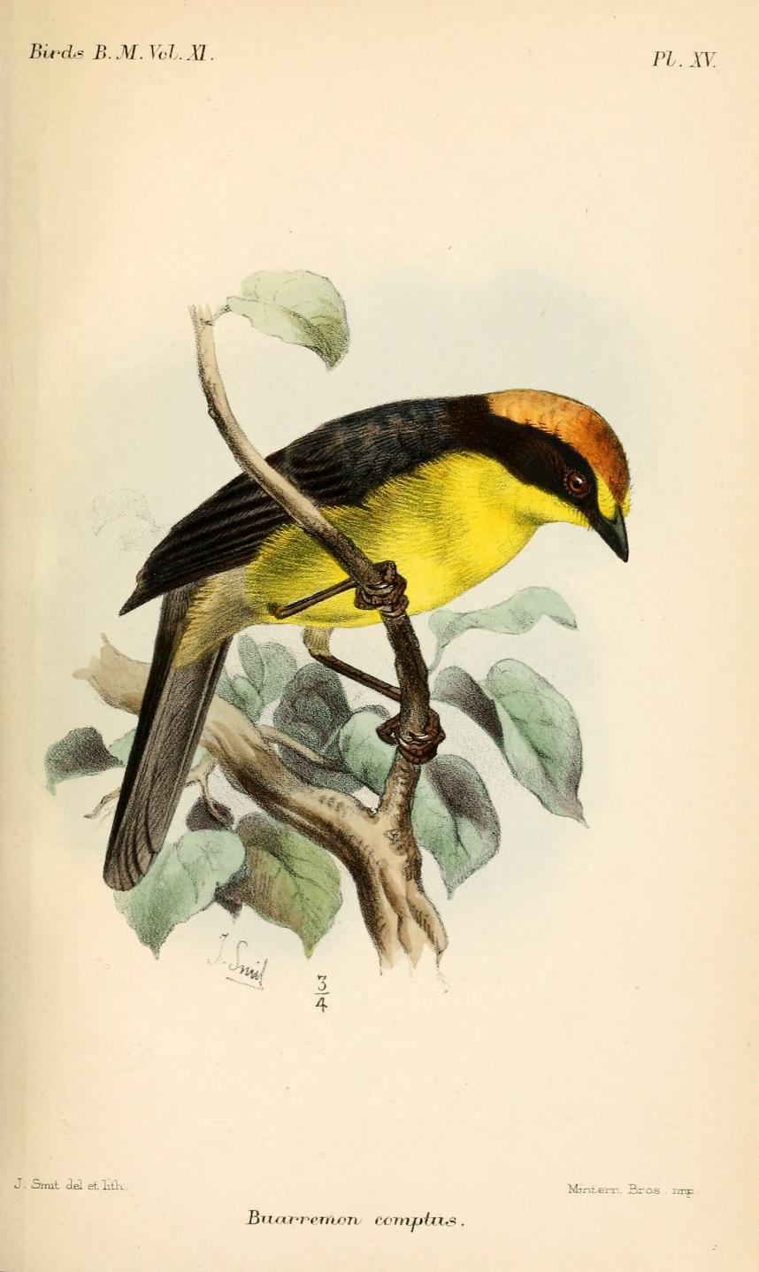 Buarremon comptus = Atlapetes latinuchus comptus, Yellow-breasted Brush-Finch ssp.